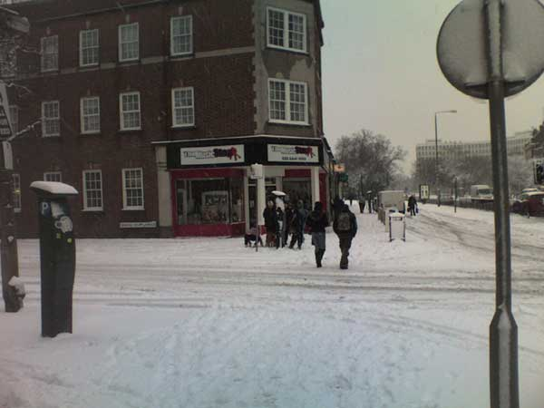 Cockfosters Road North London